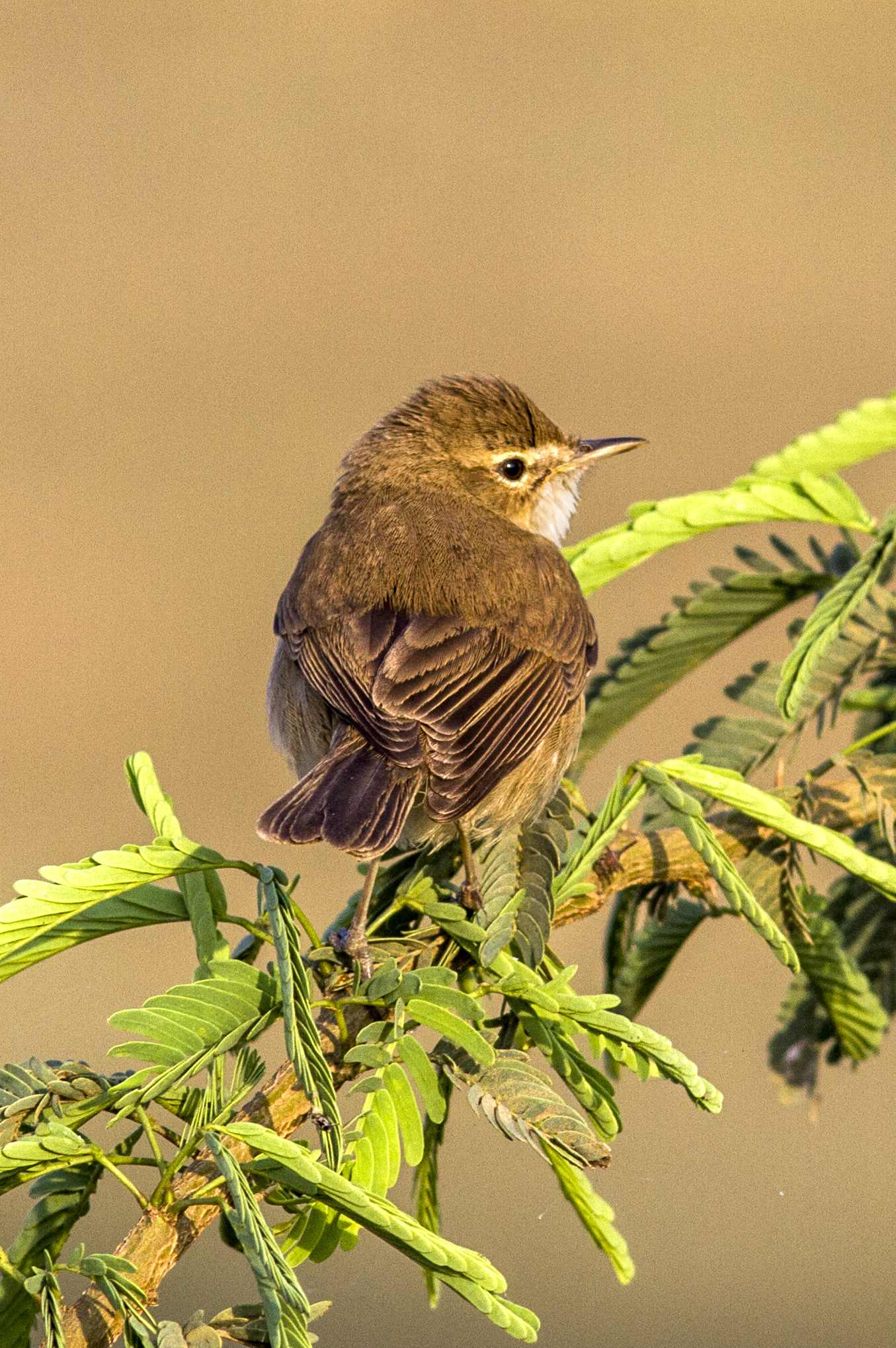 Booted Warbler